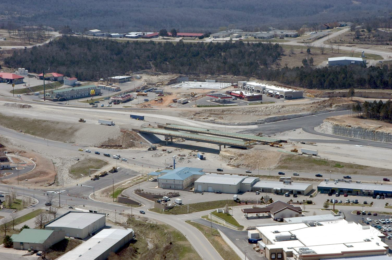 AP of Southtowne Interchange under construction for use in an appraisal article